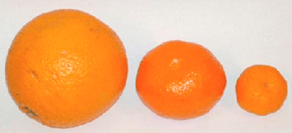 Cherry Orange compare